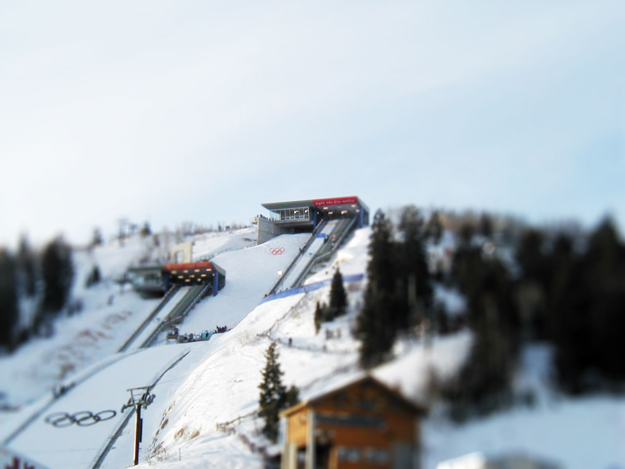 Olympic Jumping hills at Salt Lake City